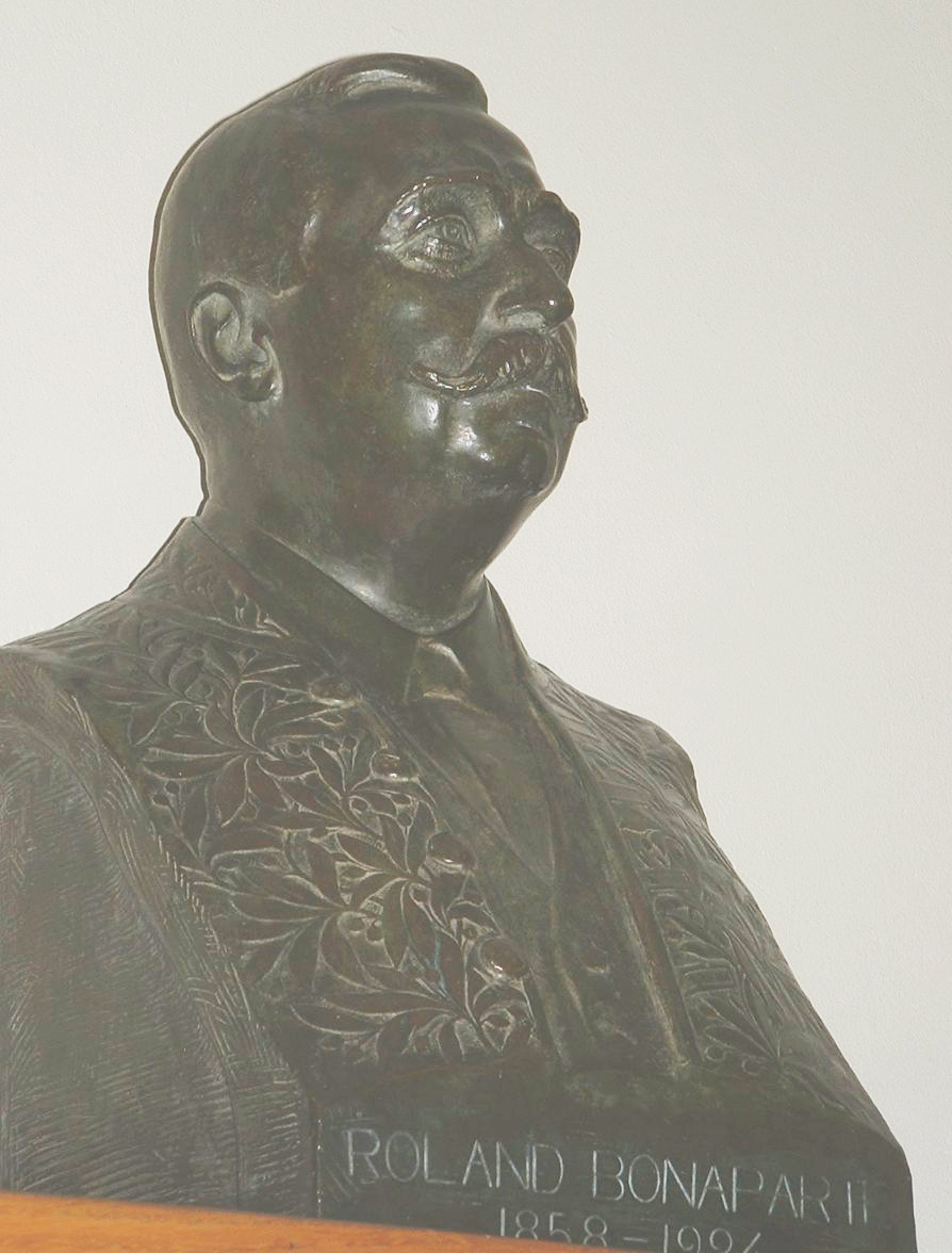 Roland Bonaparte 1858-1924 photo by Jeffdelonge